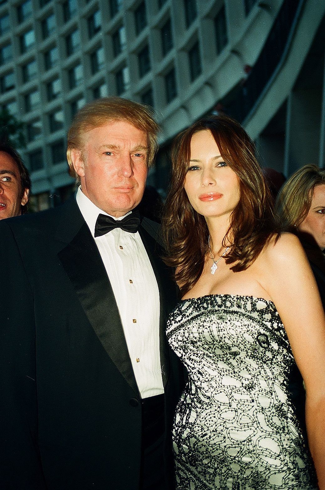 Trump and Melania pre presidency